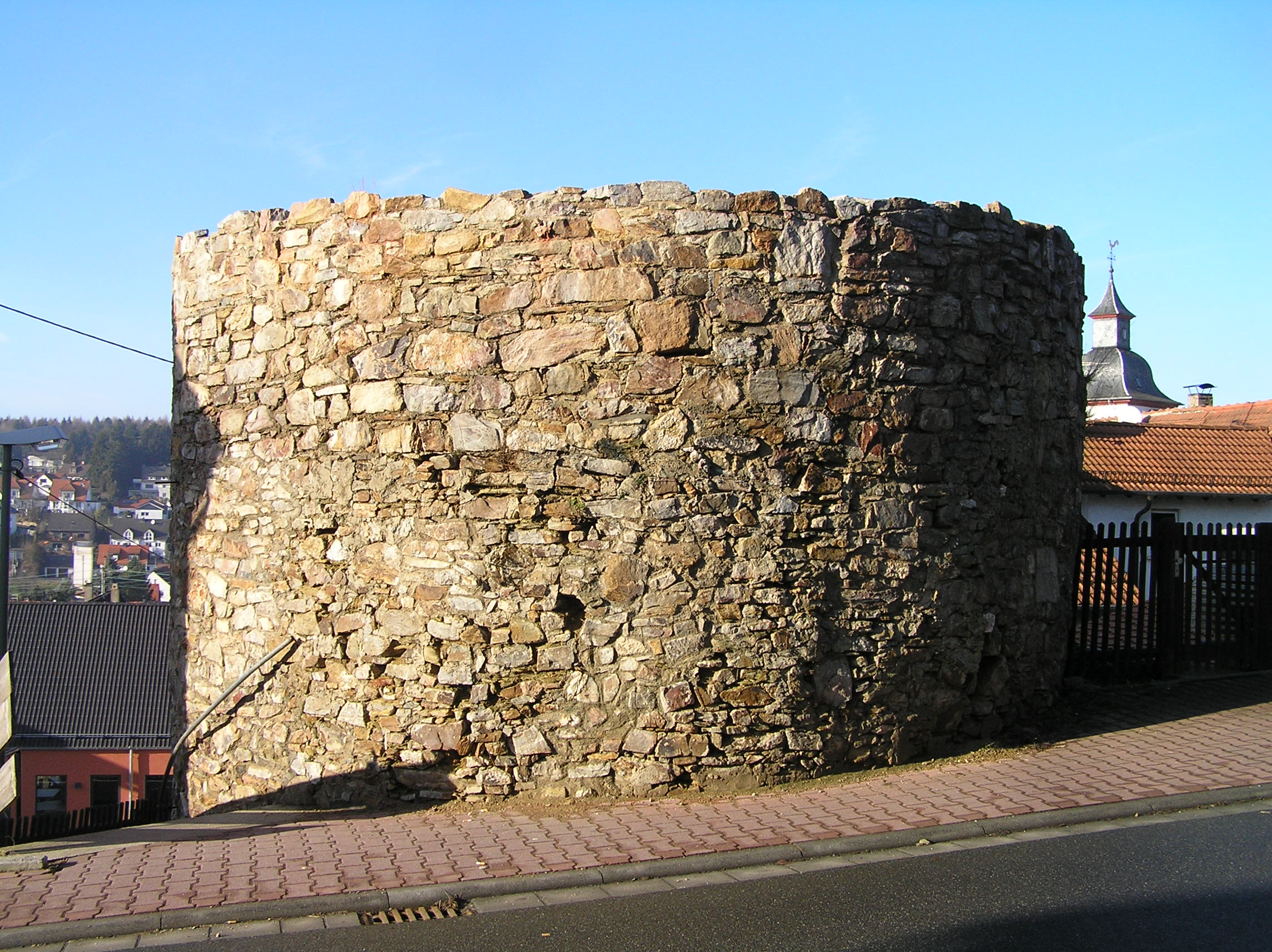 Tower, Schloßborn, Germany